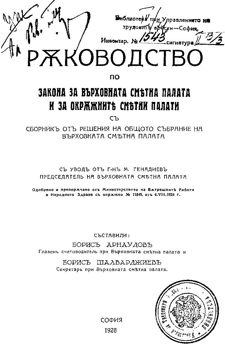 Guide Book on the Supreme Audit Office Act